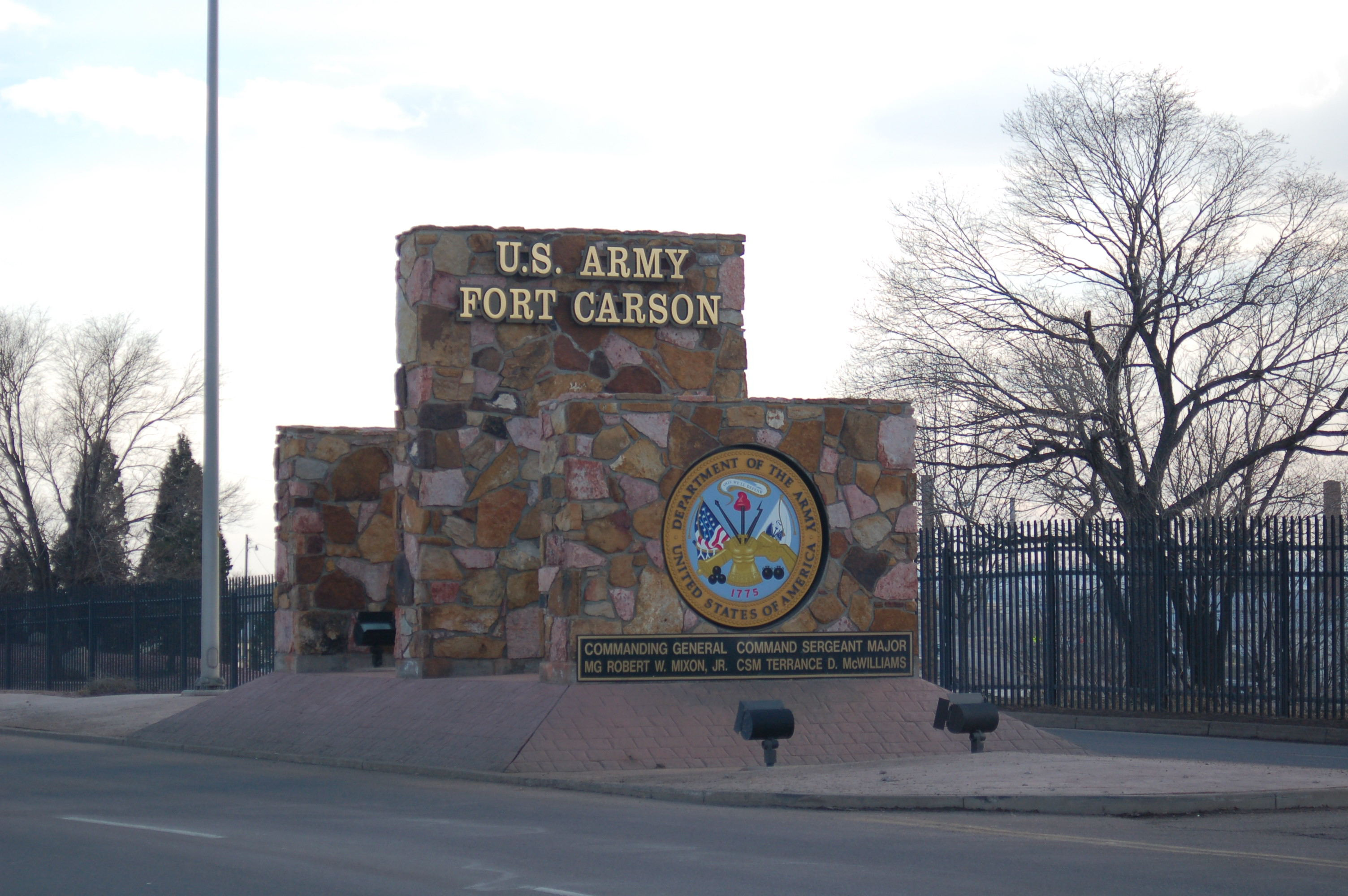 One of the main entrance signs at Fort Carson